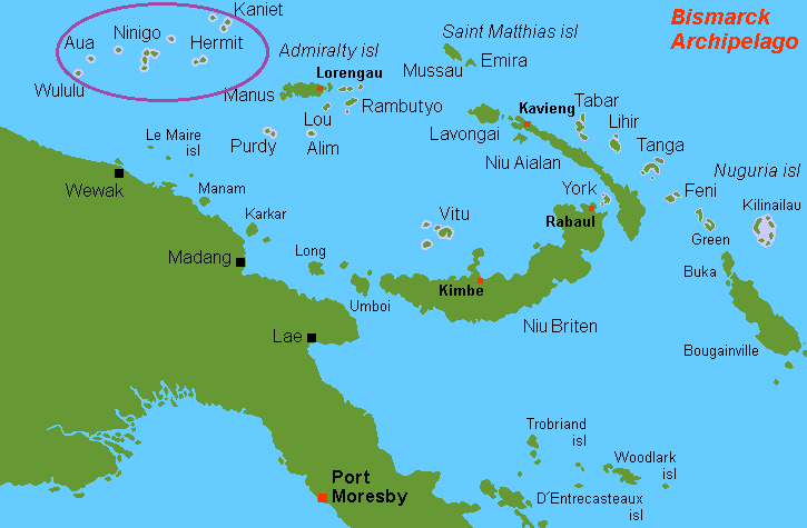 Map of Para Micronesia (purple circle)